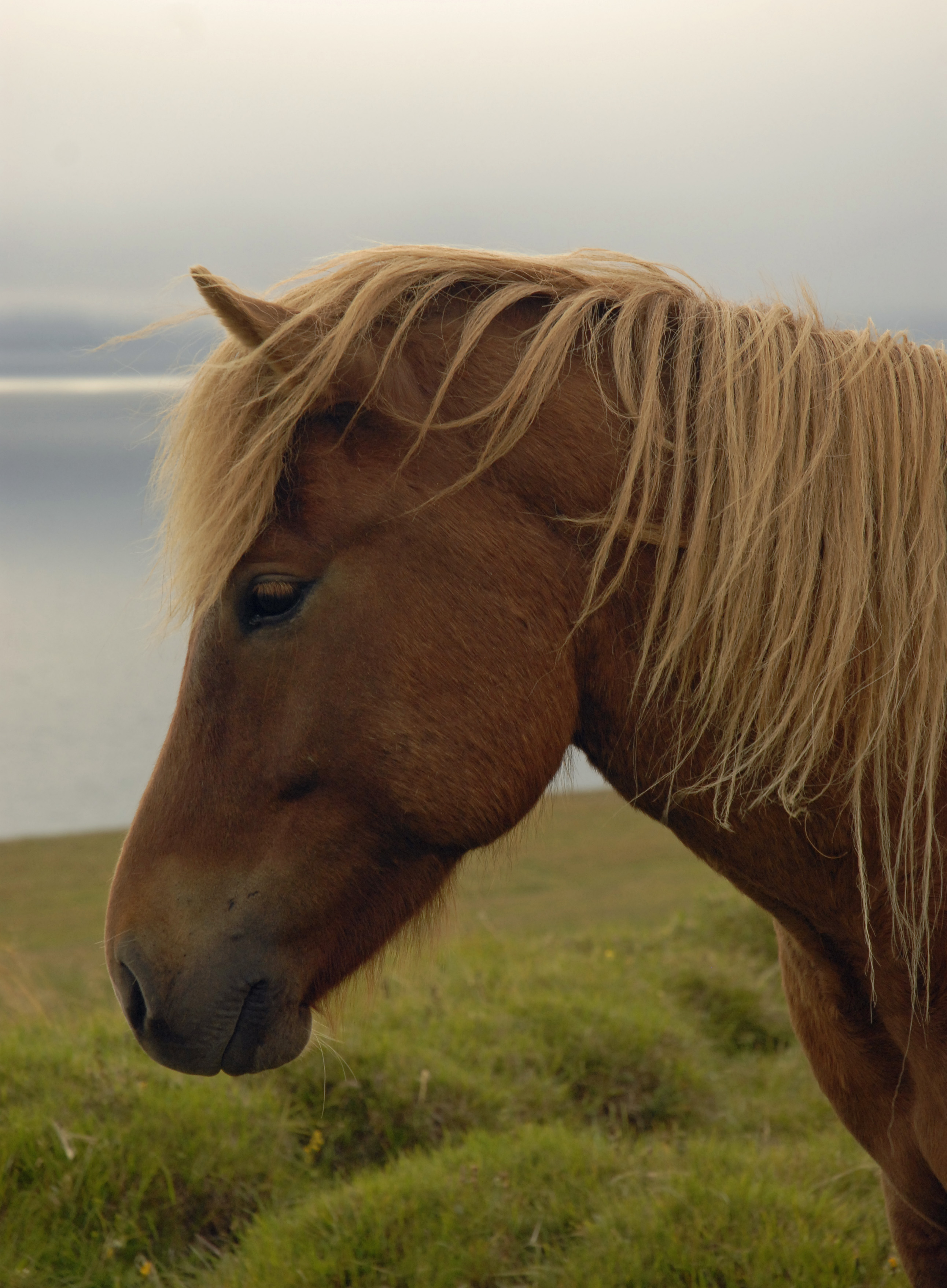 Icelandic Horse. Near Lake Hop, north Iceland.